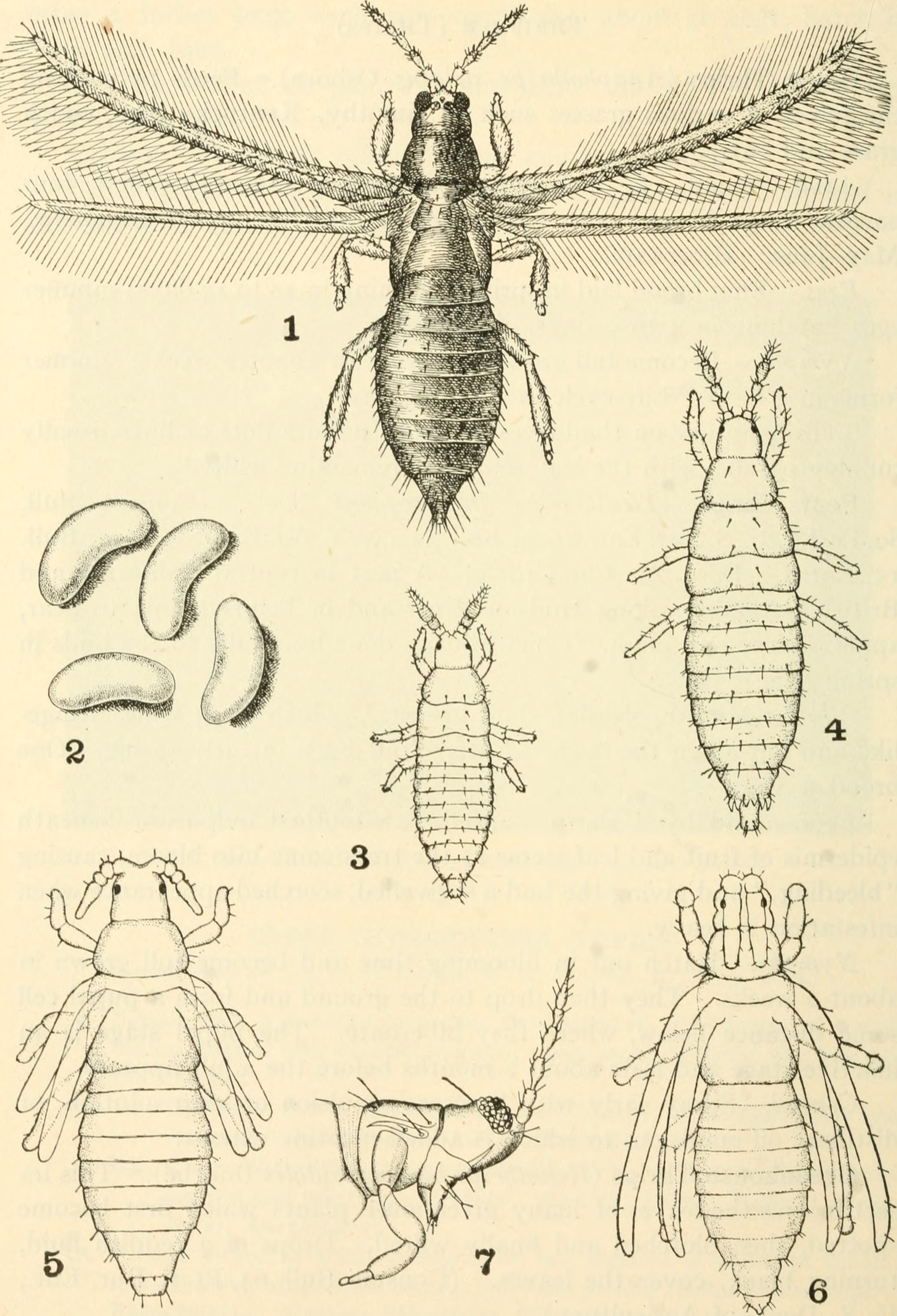 Title: Class book of economic entomology Year: 1919 (1910s) Authors: Lochhead, William, 1864- (from old catalog) Subjects: Insects, Injurious and beneficial. (from old catalog); Insects; Insects Publisher: Philadelphia, P. Blakiston's son & co Text Appearing Before Image: I20 ECONOMIC ENTOMOLOGY Text Appearing After Image: Fig. 75.—Pear thrips (Tceniothrips inconsequens): i. Adult; 2, eggs; 3 and 4, larvte; 5 and 6, nymphs or pupae; 7, head (side view). All greatly enlarged. (^After Moulton, U. S. Bur. Enl.)